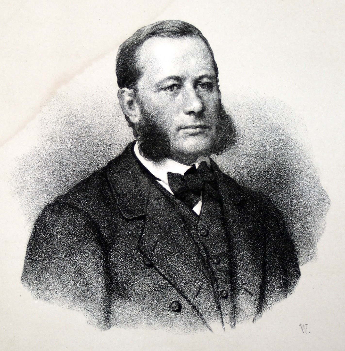 Portrait of Carl Edvard Ekman from the book "Svenska industriens män" (1875)